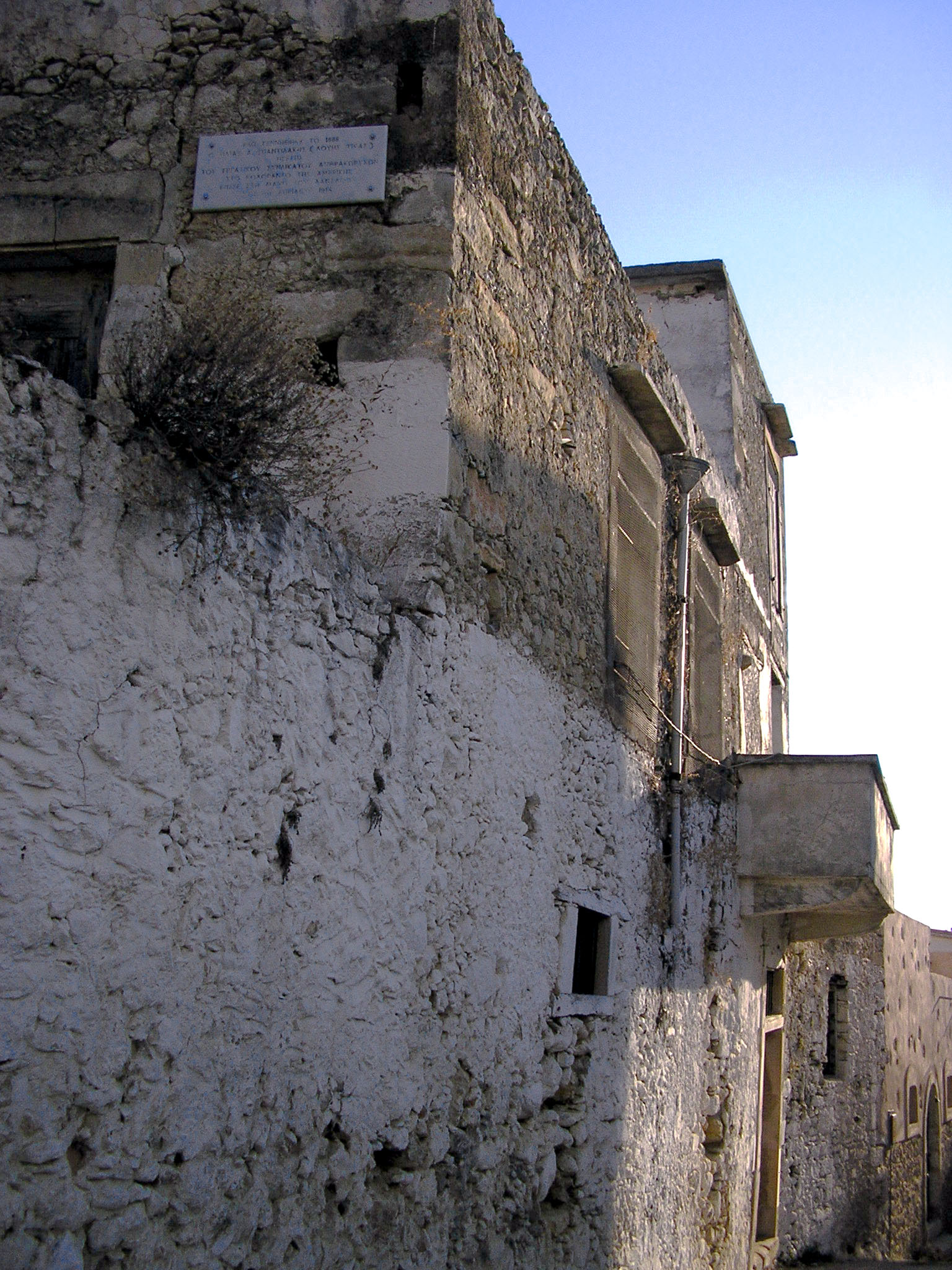 House of Louis Tikas (Elias Spantidakis) in the village of Loutra, Rethymnon Region, Crete.